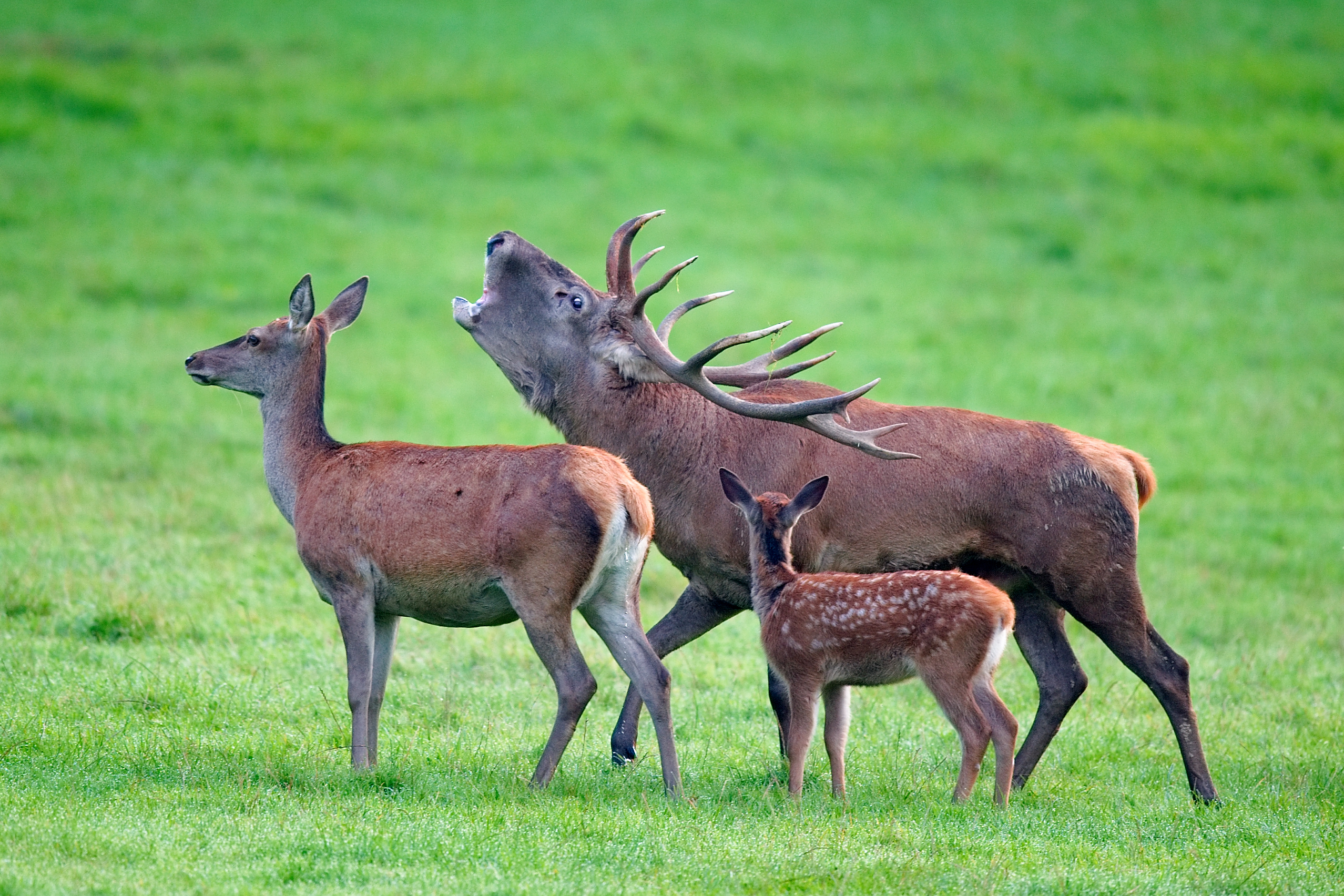 Red deer Cervus elaphus, in Freyr forest, near Han-sur-Lesse, Belgium.